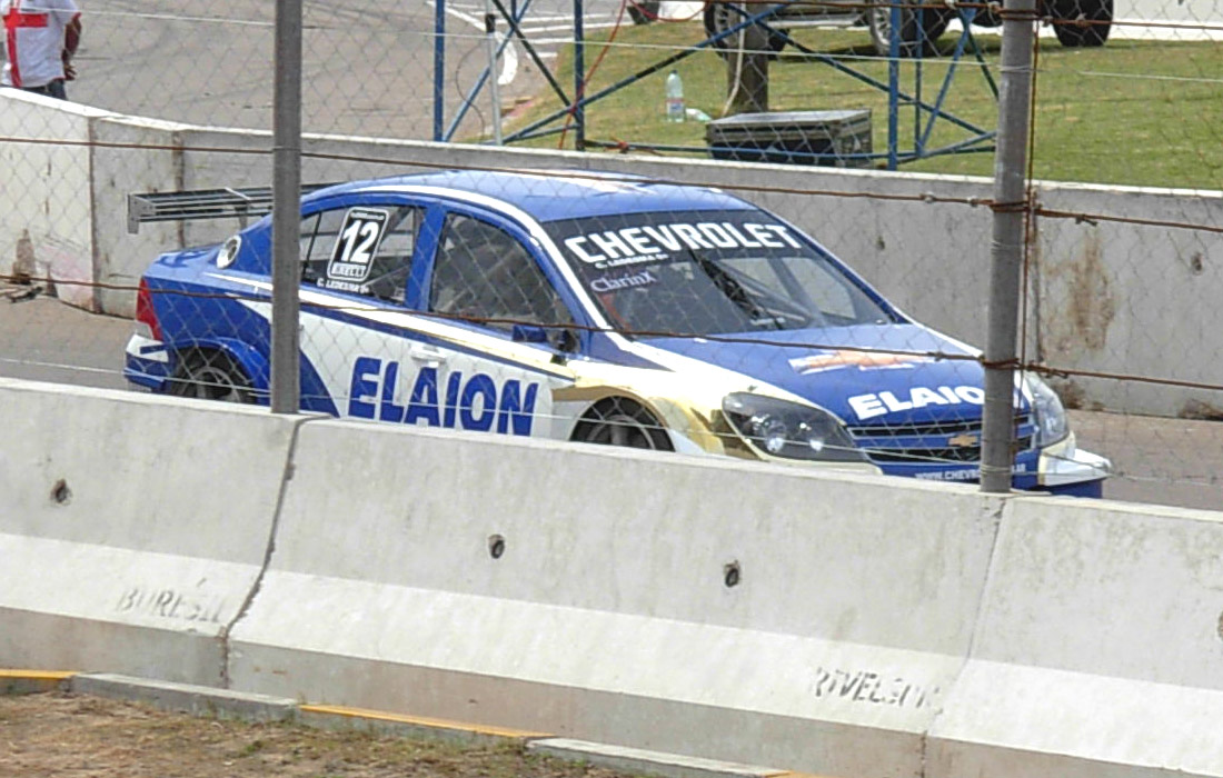 Christian Ledesma's #12 TC2000 Chevrolet Vectra at the 2010 Punta del Este Grand Prix.